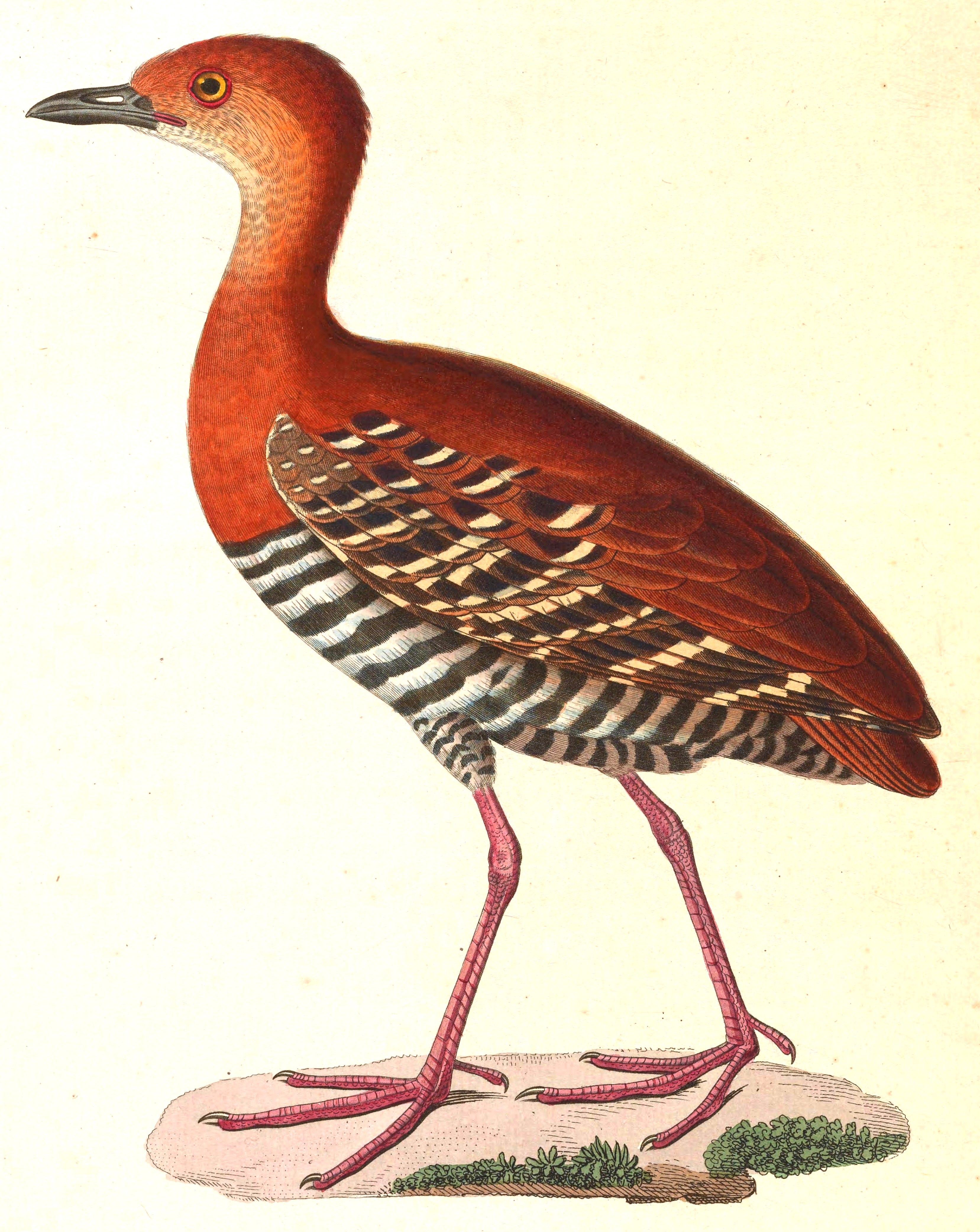 « Gallinula eurizona » = Rallina fasciata (Red-legged Crake)